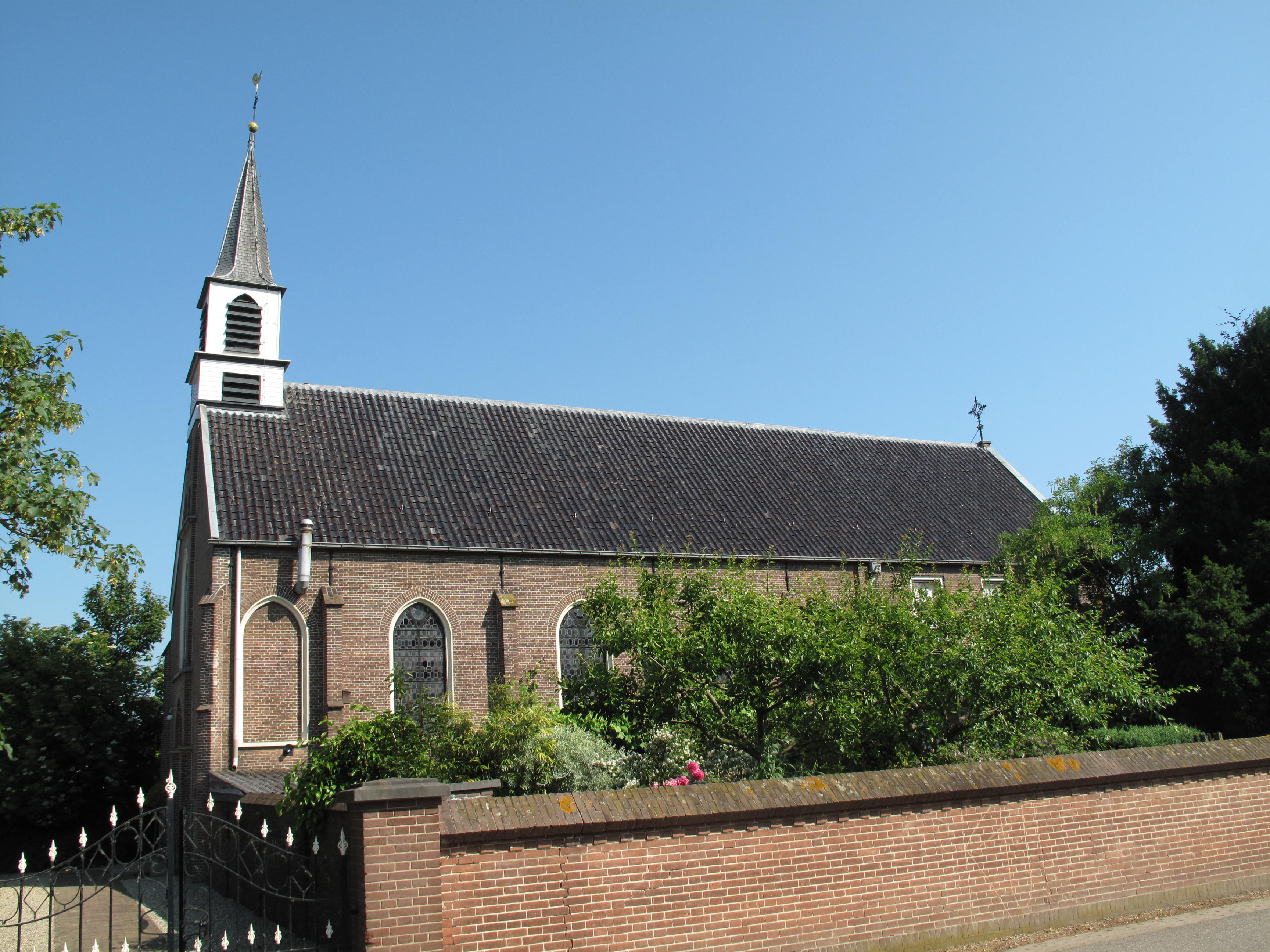 Rumpt, catholic church